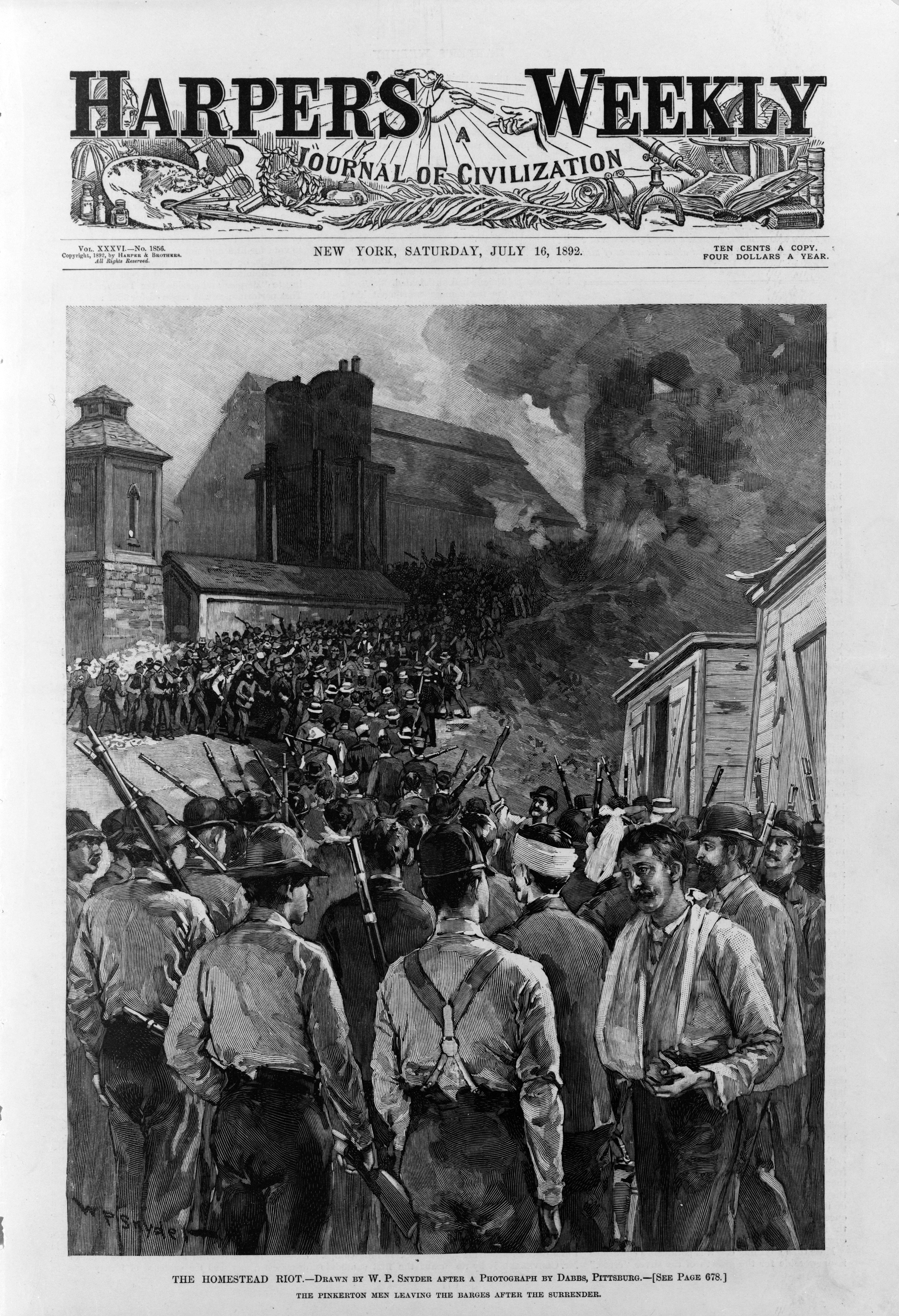 Pinkerton Detective Agency men leaving the barges after the surrender of strikers during the Homestead Strike. Illus. in: Harper's Weekly, v. 36, no. 1856, p. 673.